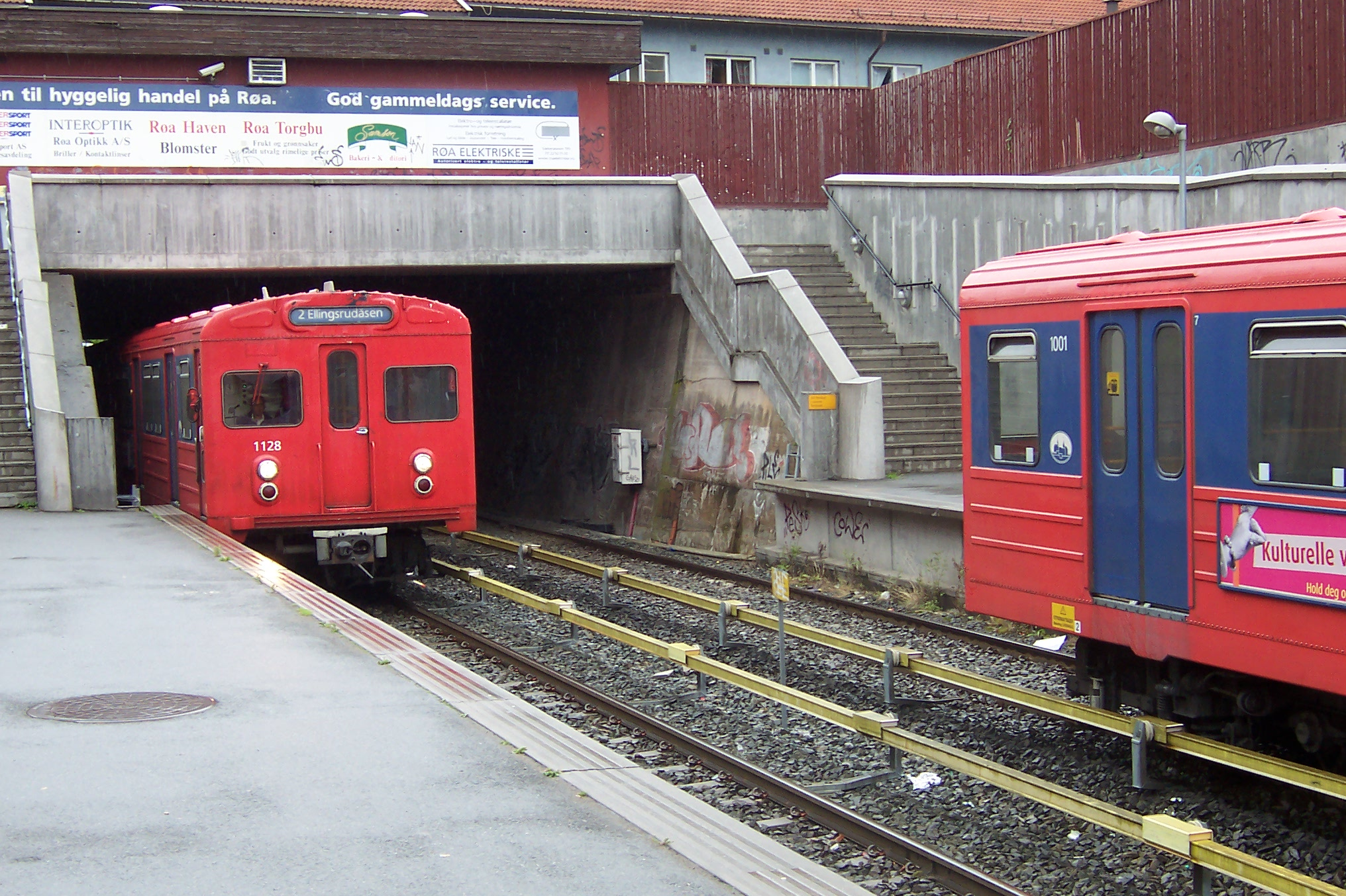 Subway cars pass each other at Røa T-Bane station in Oslo.